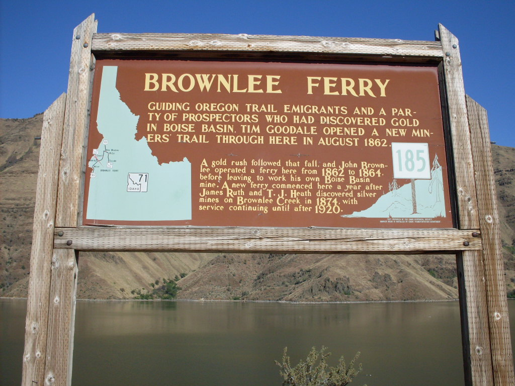 Brownlee Ferry. Goodale Trail. Snake River. Idaho-Oregon border.